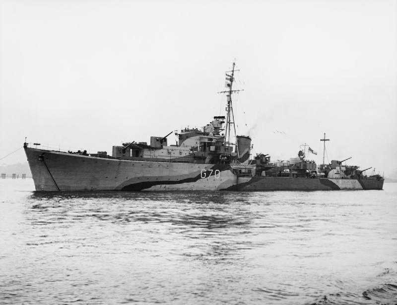 The Royal Navy destroyer HMS Queenborough (G70) at anchor, probably off Wallsend-on-Tyne, England (UK), where she hed been built by Swan Hunter and Wigham Richardson.